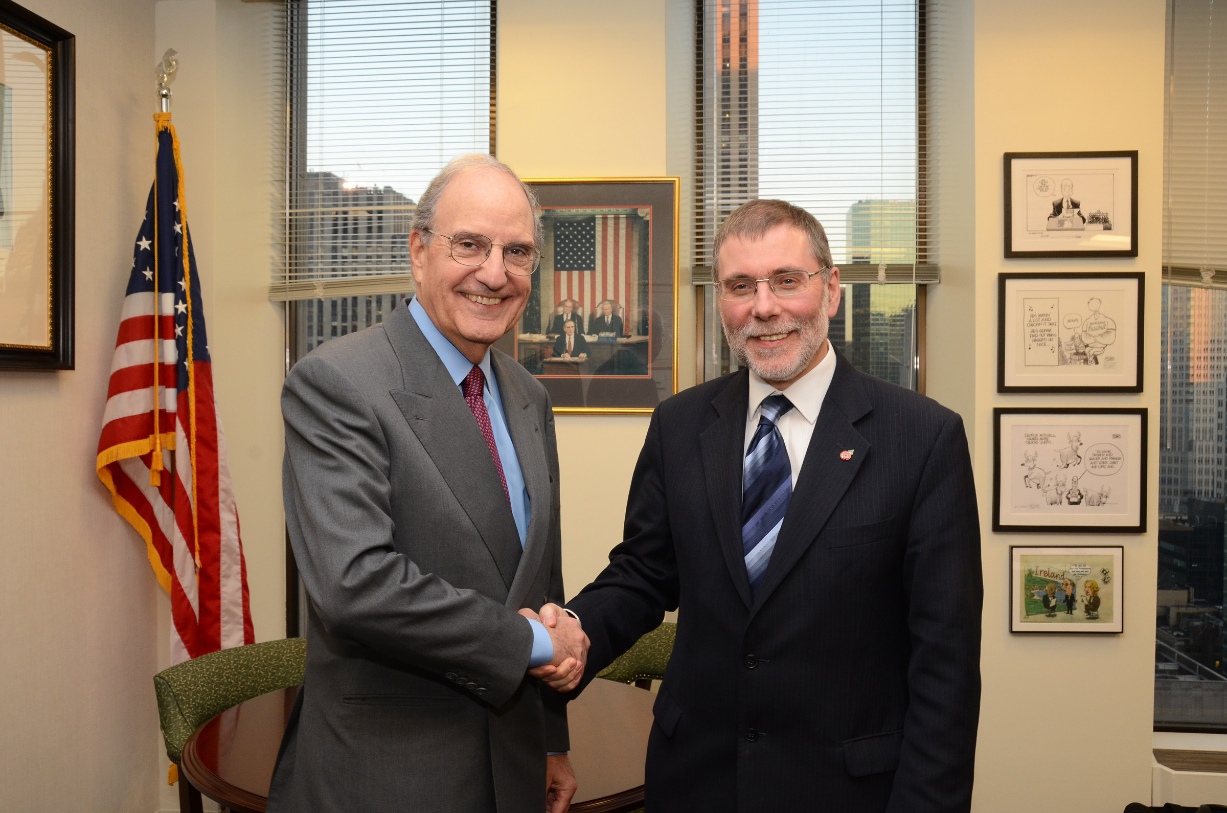 Senator George Mitchell meets Minister Nelson McCausland in New York 8/11/11